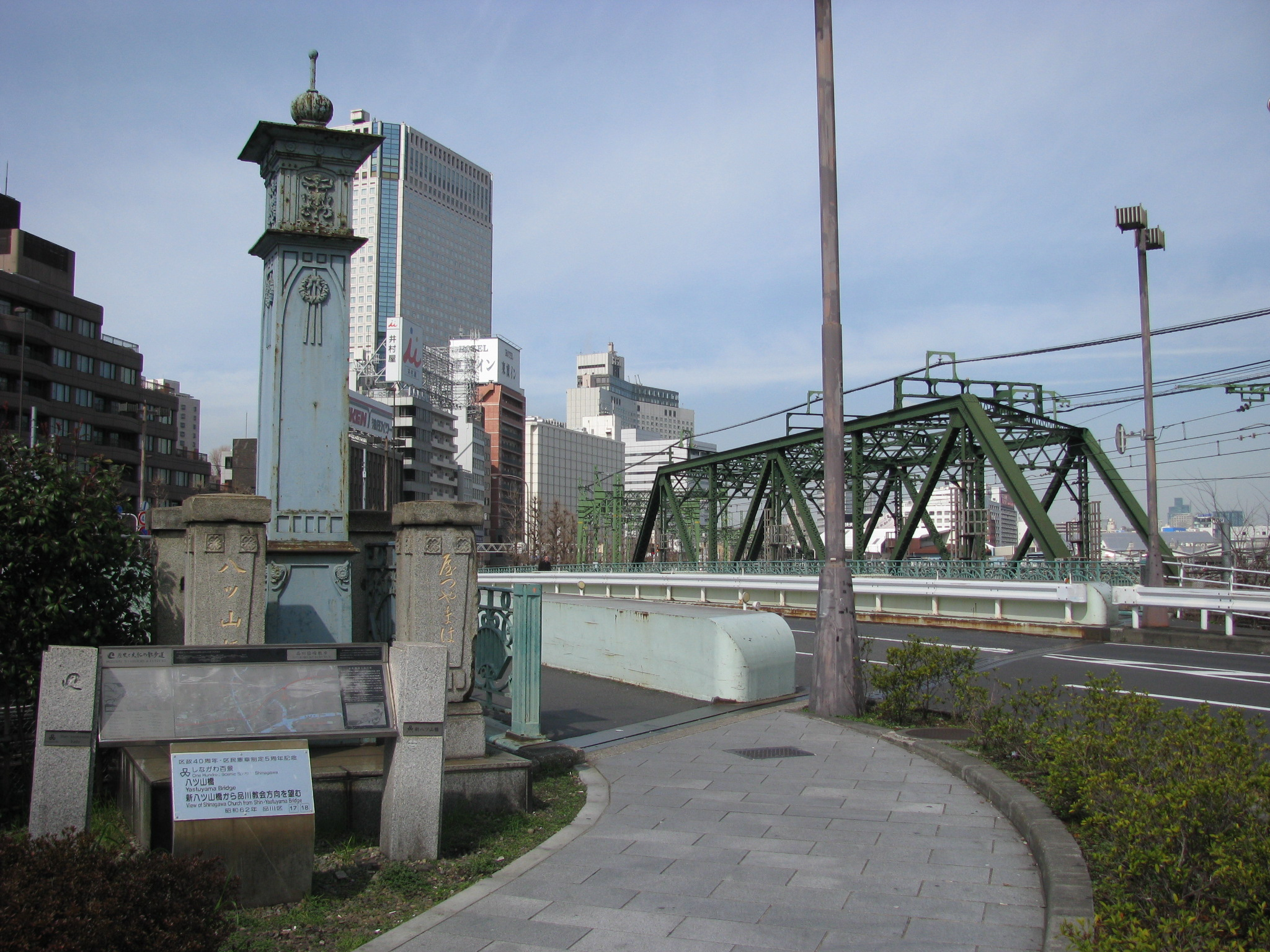 The Yatuyama-bashi (Yatuyama bridge) on National Route 15, located in Shinagawa, Tokyo, Japan.